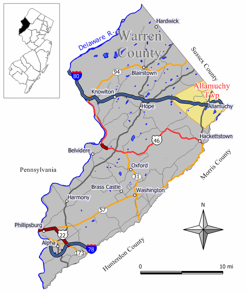 Original work by Jim Irwin, December 2005. Map of Allamuchy Township in Warren County, New Jersey.